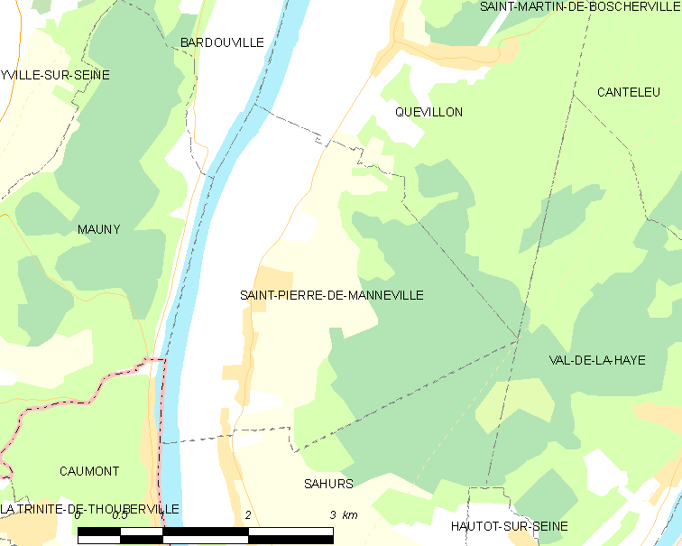 Map of French municipality Saint-Pierre-de-Manneville